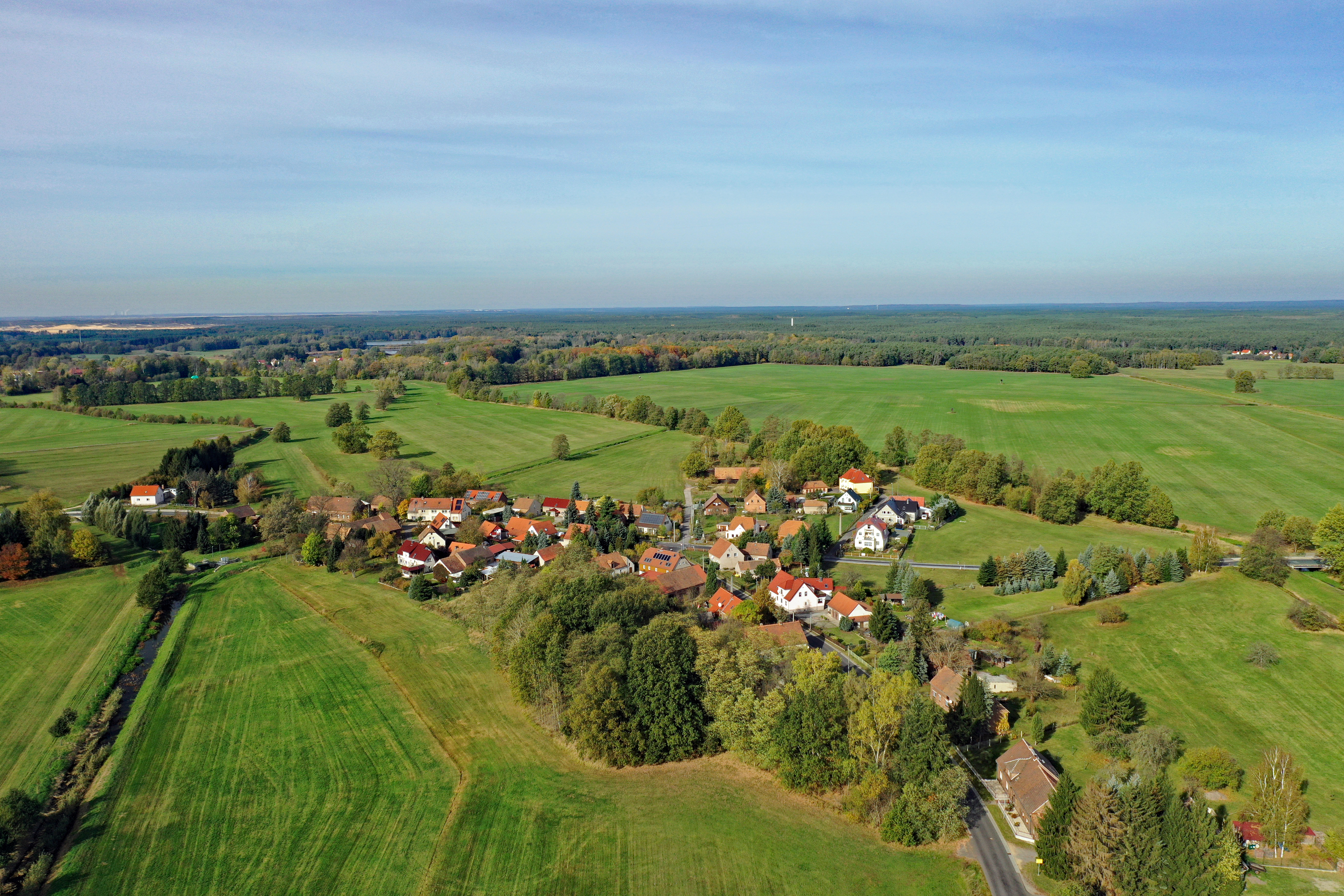 Neuhammer (Ritschen, Landkreis Görlitz, Saxony, Germany)